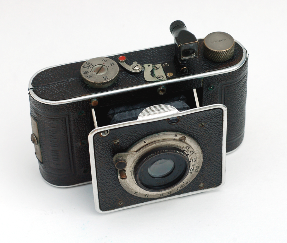 The Foth Derby is a folding strut camera that was made in Germany in the early 1930s. This particular example sports a self-timer and an optical telescopic viewfinder, which folds down when not in use. The Gallus Derby (as well as the Derby-Lux & Derlux) is the French version of the Foth Derby.